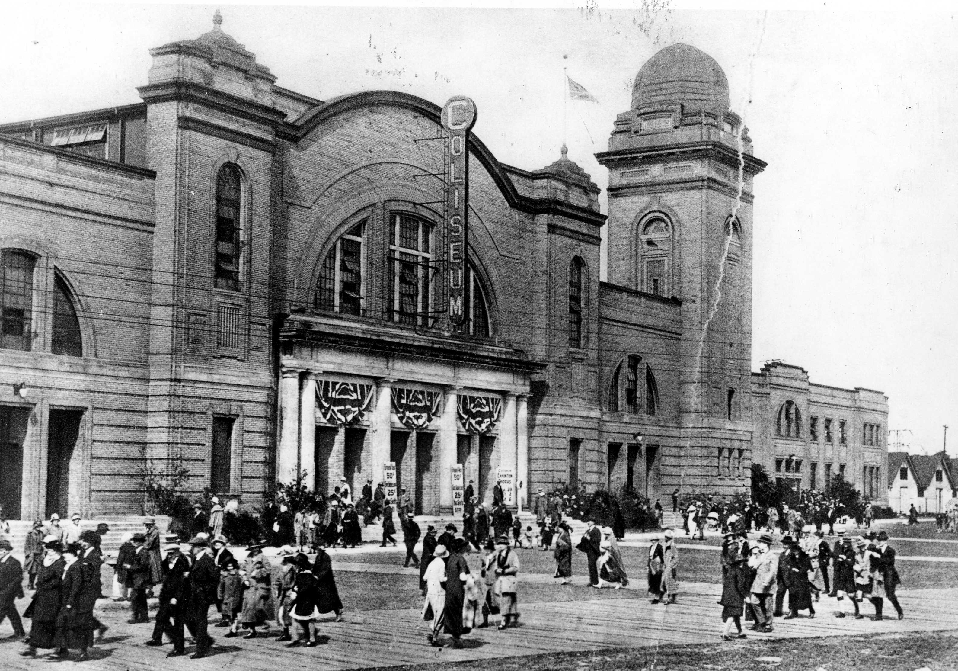 Coliseum, Canadian National Exhibition, Toronto, Canada.